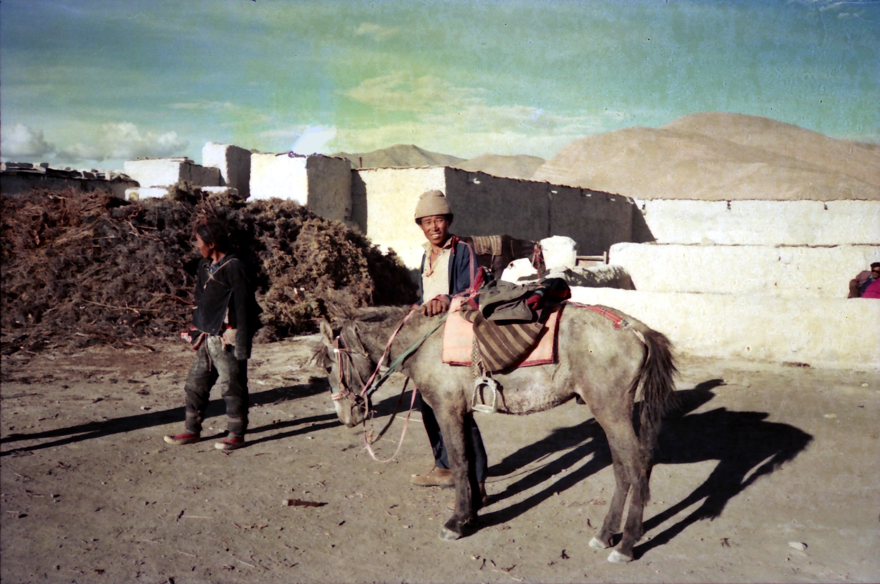 photo showing Tibetans and horse in Tingri village.